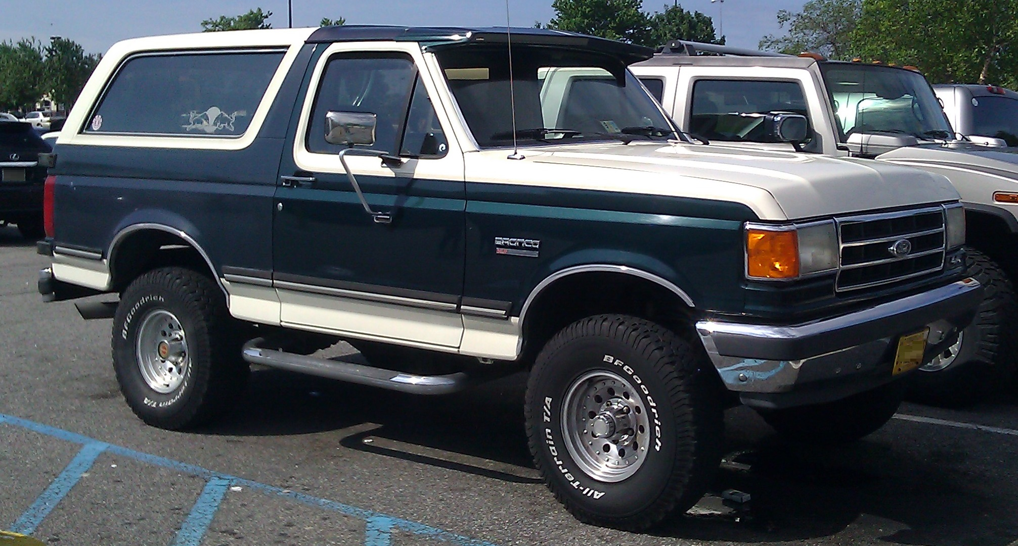 Ford Bronco XLT photographed in Virginia Beach Virginia, USA.